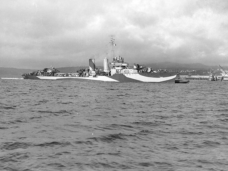 The U.S. Navy destroyer USS Farragut (DD-348) off the Puget Sound Navy Yard, Bremerton, Washington (USA), on 29 September 1944. Her camouflage scheme is Measure 31, Design 7D.